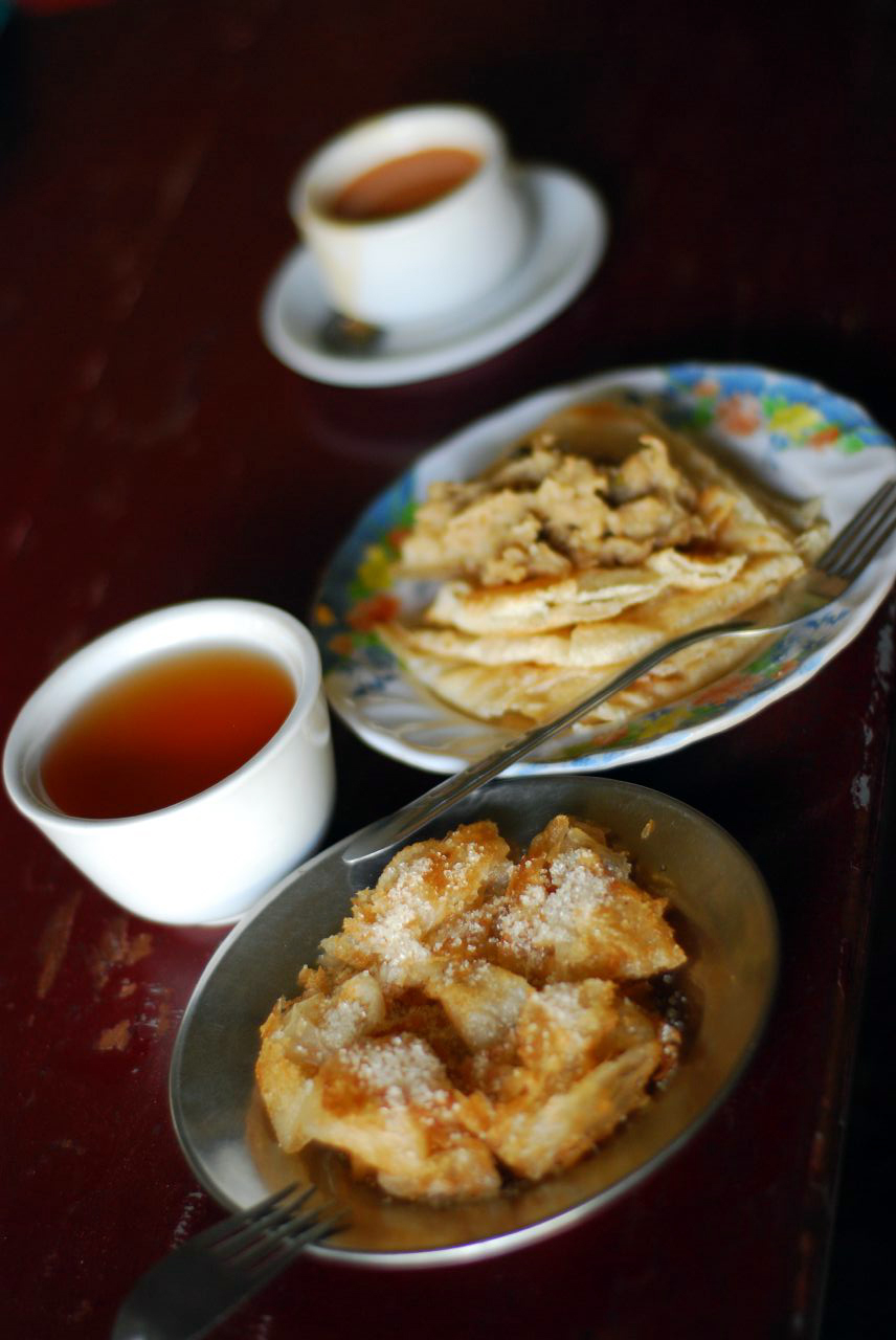 Paratha dish